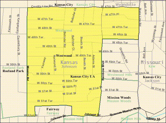 U.S. Census 2000 reference map for Westwood, Kansas